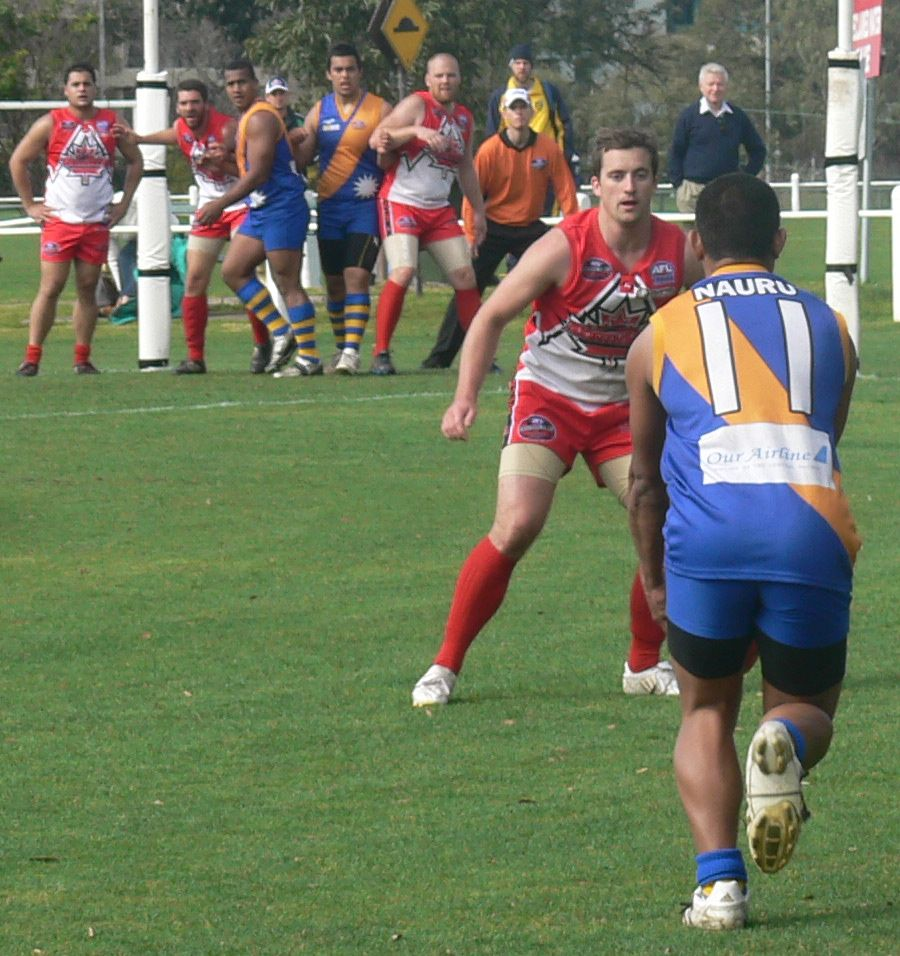 Nauruan player kicking for goal against Canada in the 2008 Australian Football International Cup